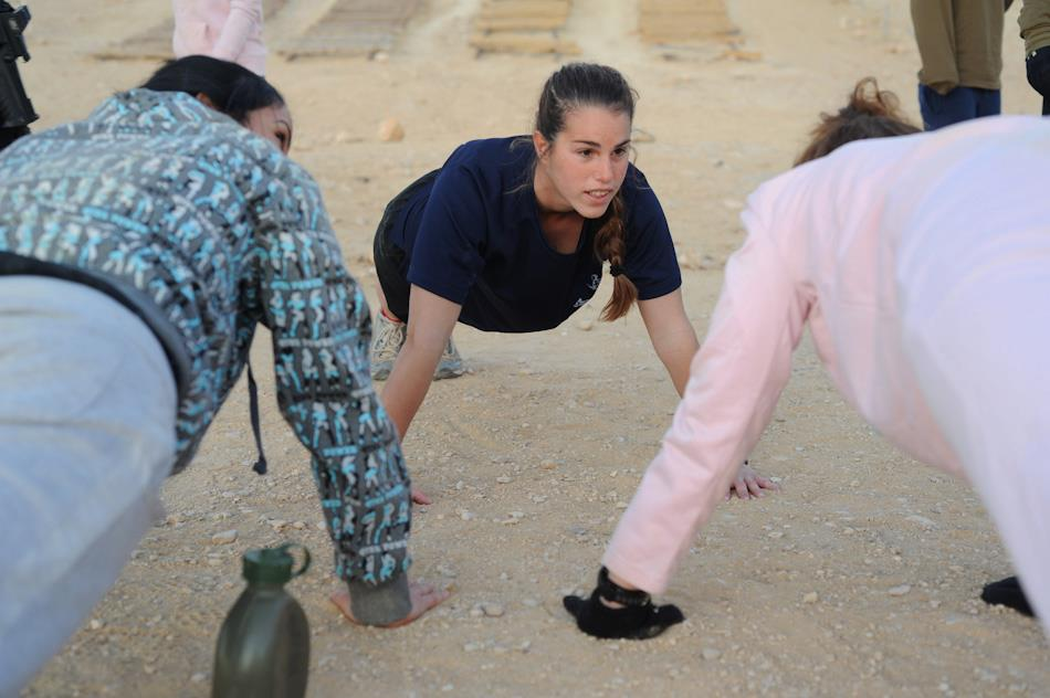 Push-ups. Photos by Noa City-Eliyahu, Bamahane The Israel Defense Forces Facebook • blog • Twitter